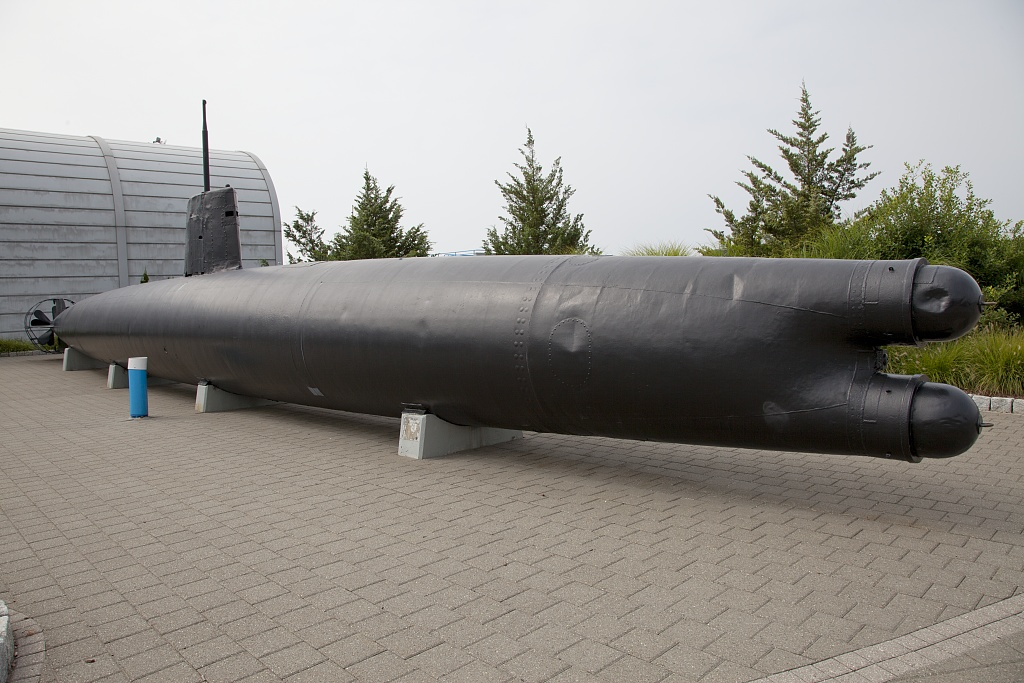 HA-8, Japanese midget submarine, Submarine Force Library & Museum, Groton, Connecticut Identified at